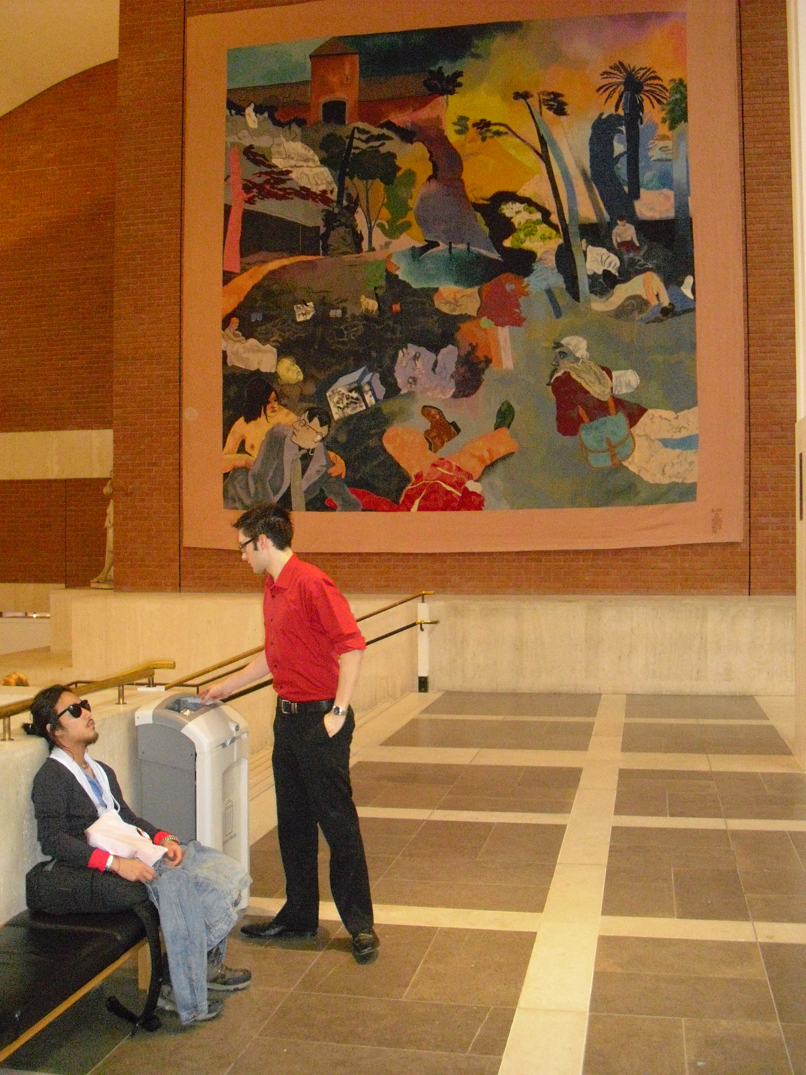 INSIDE THE BRITISH LIBRARY2 3 3 2010